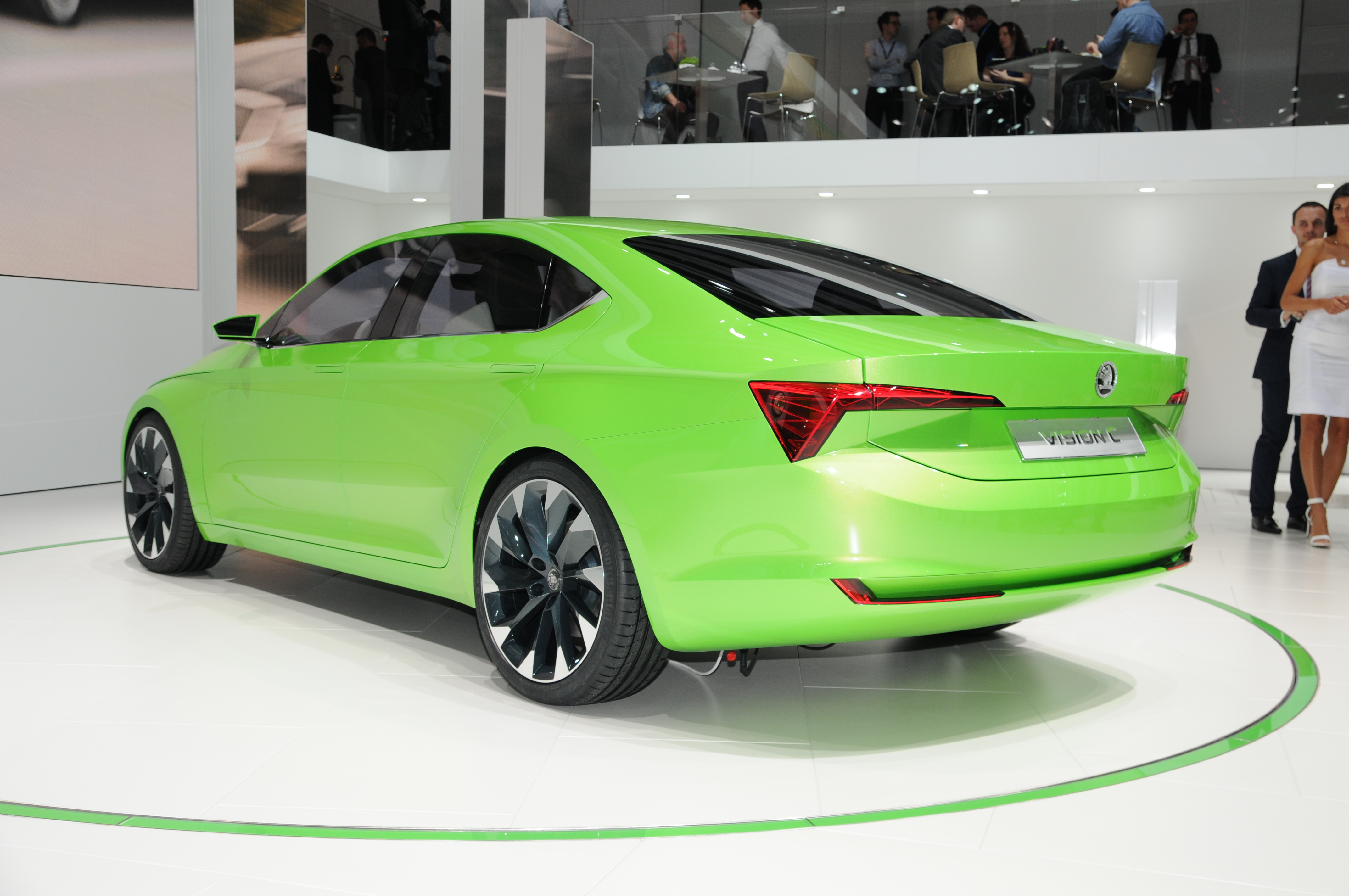 Geneva Motor Show 2014 (photo taken on the first press day)